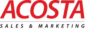 Acosta's logo